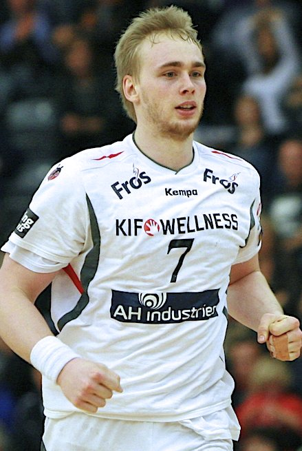 Rene Toft Hansen from KIF Kolding.